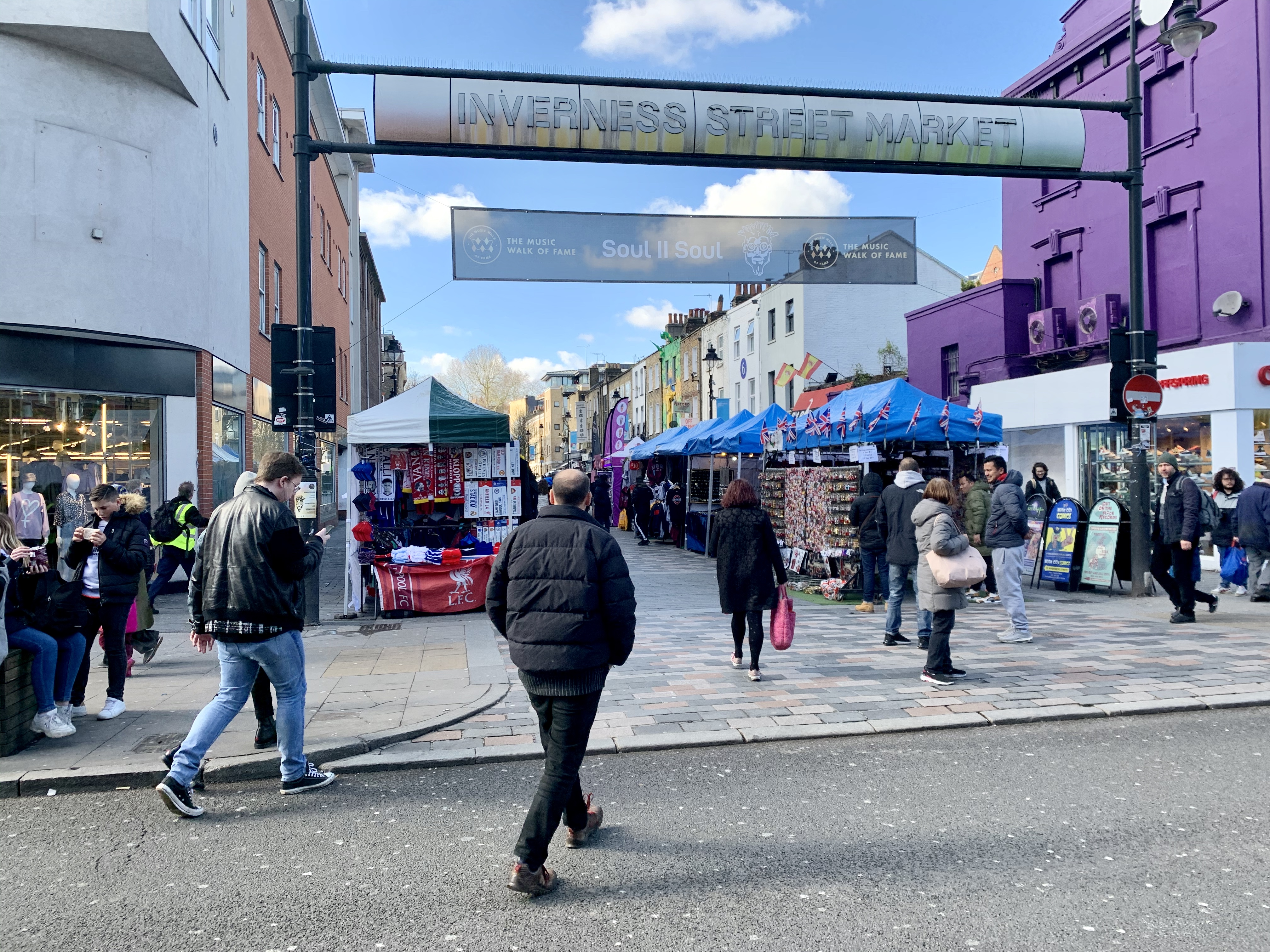 Inverness Street Market from Camden High Street on the day of Soul II Soul’s Camden Music Walk of Fame stone laying. Taken on 6 March 2020.